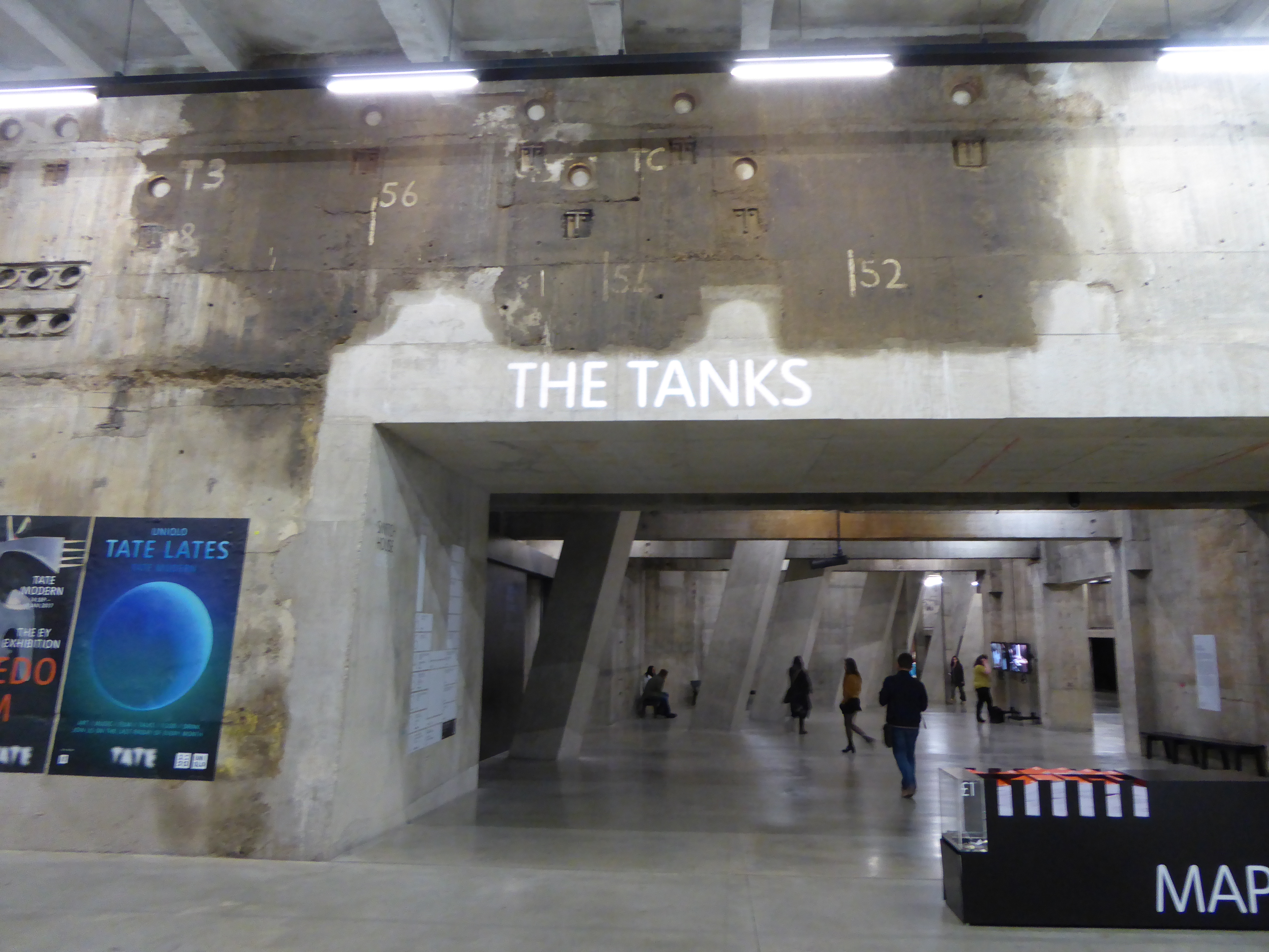 The Tanks, Tate Modern, Bankside, London, England, October 2016